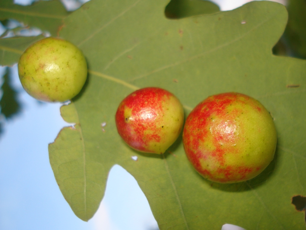 Common Oak Gall-wasp (Cynips quercusfolii) Дубовая орехотворка (Cynips quercusfolii)